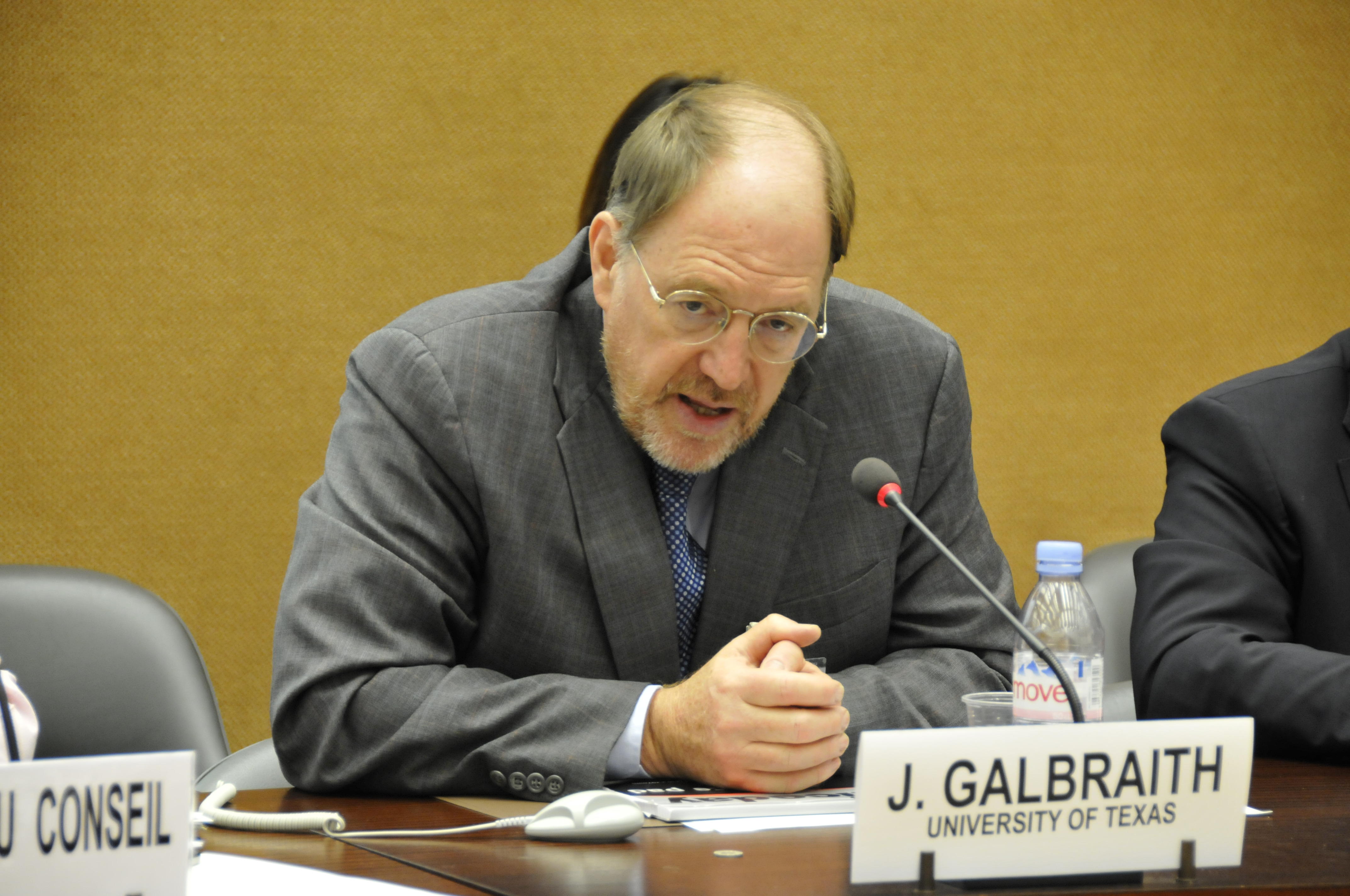 Professor James Galbraith at the "Inequality and Sustainability" UNCTAD Trade and Development Board , Geneva , 2012